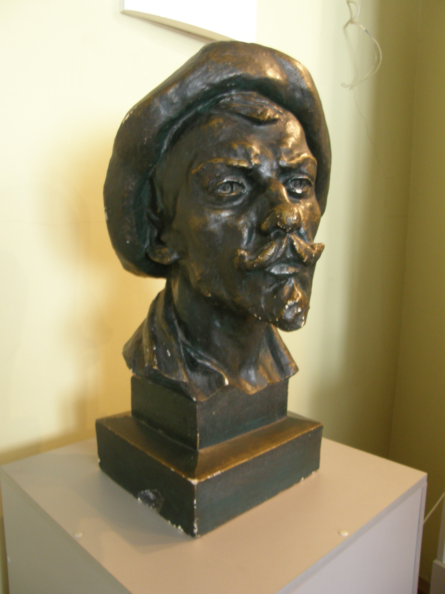 Mikhail Kurako. Museum of History of Donetsk metallurgical plant